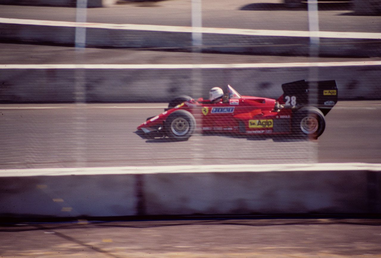 Rene Arnoux, #28 Ferrari placed 2nd. His Formula 1 career spanned 1978 to 1989, 149 starts in 164 races, 7 wins, 22 podium finishes, and 18 poles. The car shown here is the Ferrari 126C which was the replacement for the 312T. It was Ferrari's first attempt at a turbo car with its 1500cc V6. It suffered from huge turbo lag and then an acceleration blast that unbalanced the car and made handling difficult.